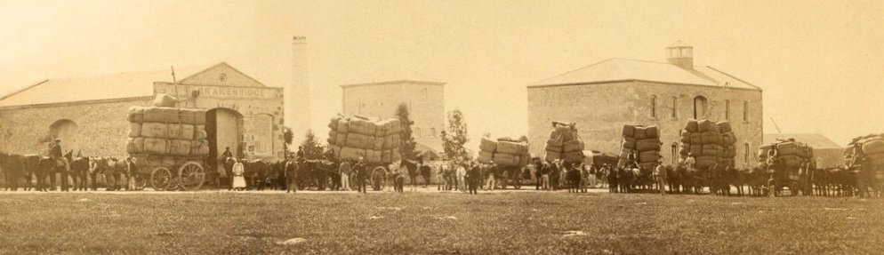 Horse teams harnessed to loaded wool wagons are lined up for the photographer in front of the wool stores at Milang. On back of the photographic print was written: 'Milang. Teams in front of Landseer's and Brakenridge's stores, about 1876. At this time the wool was brought down the Murray in steamers, landed at Milang, and carried overland to Port Adelaide.